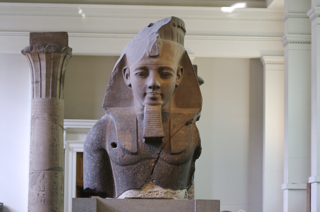 I had a wonderful day at the British Museum with CoryQ (of MonkeyRiverTown) and his wife Mary. These are everything I shot that day, unedited and uncleaned, except for shrinking them some to spead up the upload. This statue of Ramesses II was a featured object in the BBC/British Museum's series "A history of the world in 100 objects".